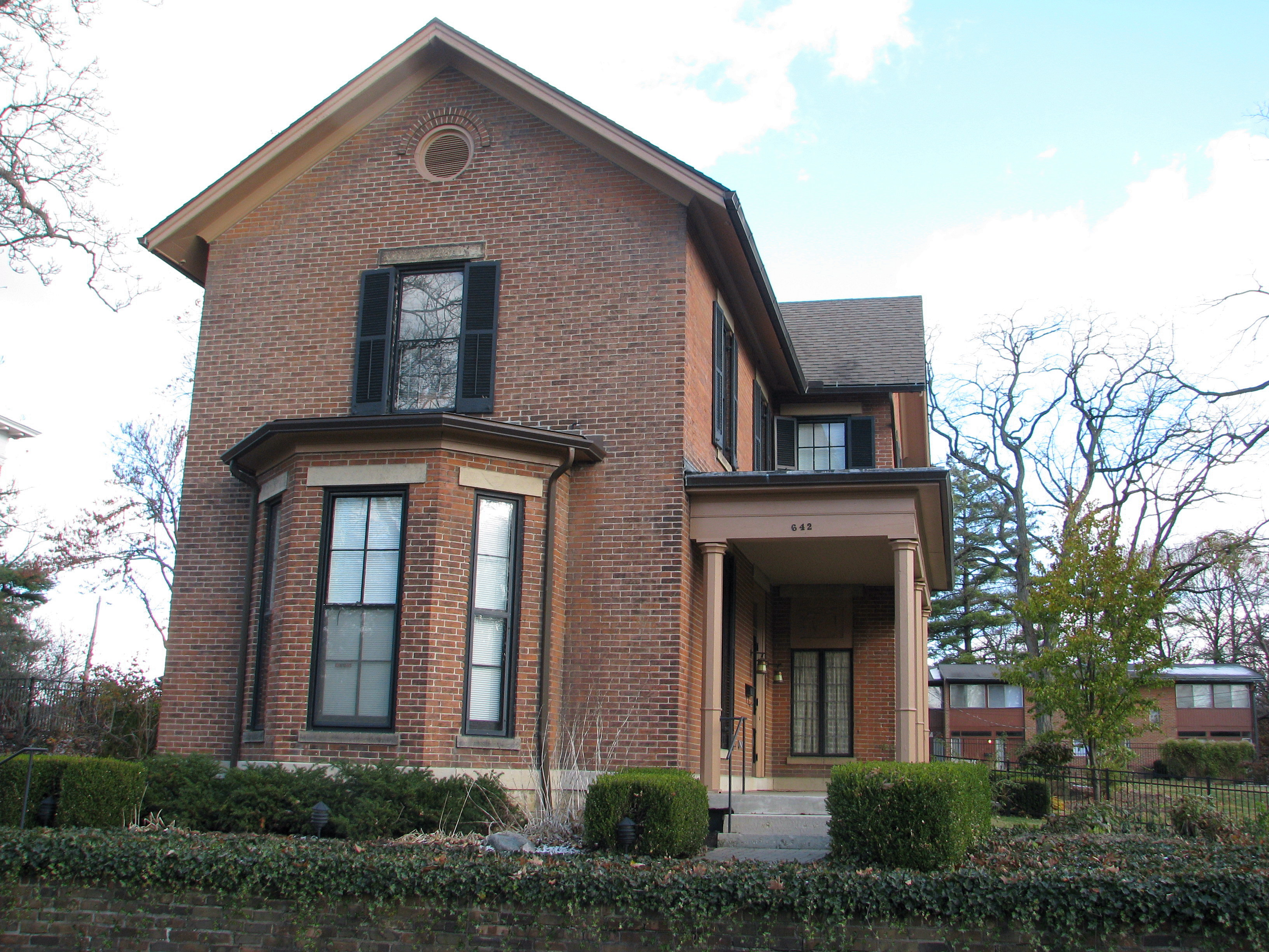 Photo I took myself